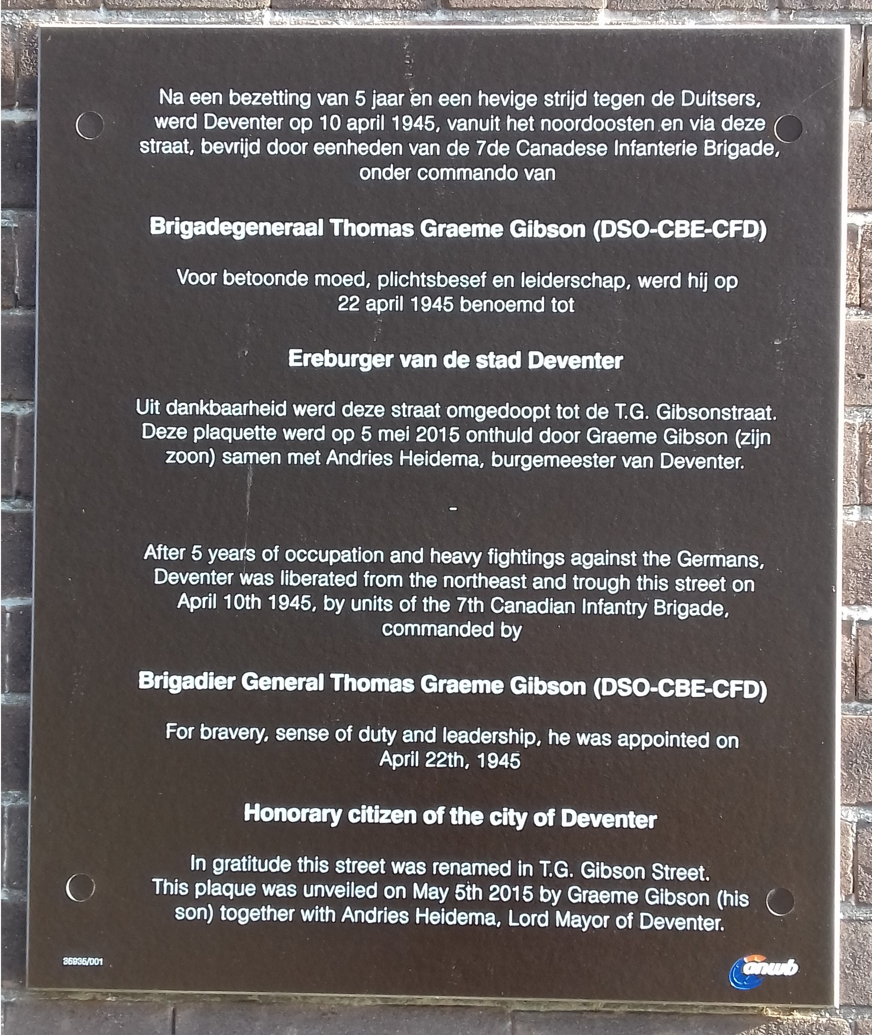 Memorial plaque in Deventer for Brig. T.G. Gibson and 7 Canadian Infantery Brigade for the liberation of Deventer on April 10th, 1945.